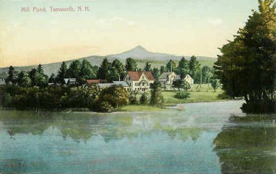 Mill Pond, Tamworth, NH; from a c. 1910 postcard.